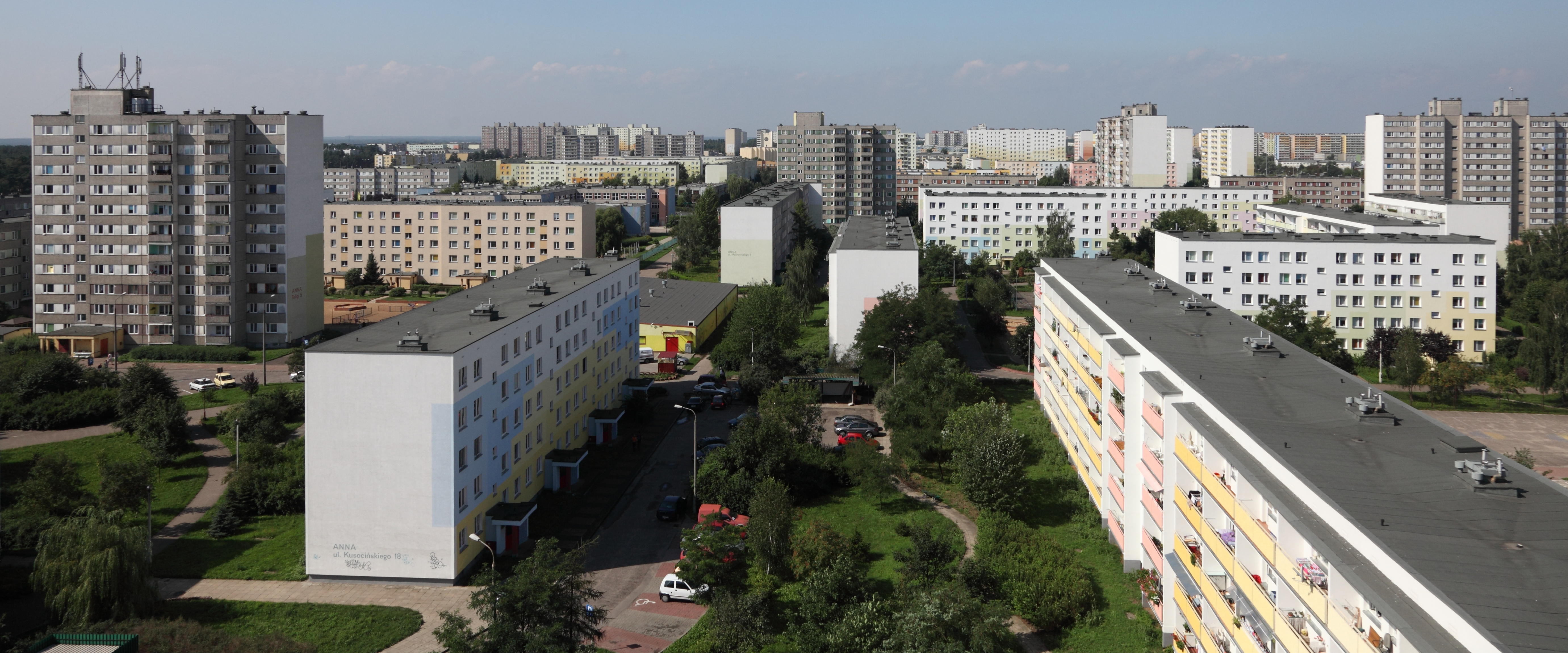 Na Skarpie, Toruń, panoramic view from one of the blocks on the eastern end.